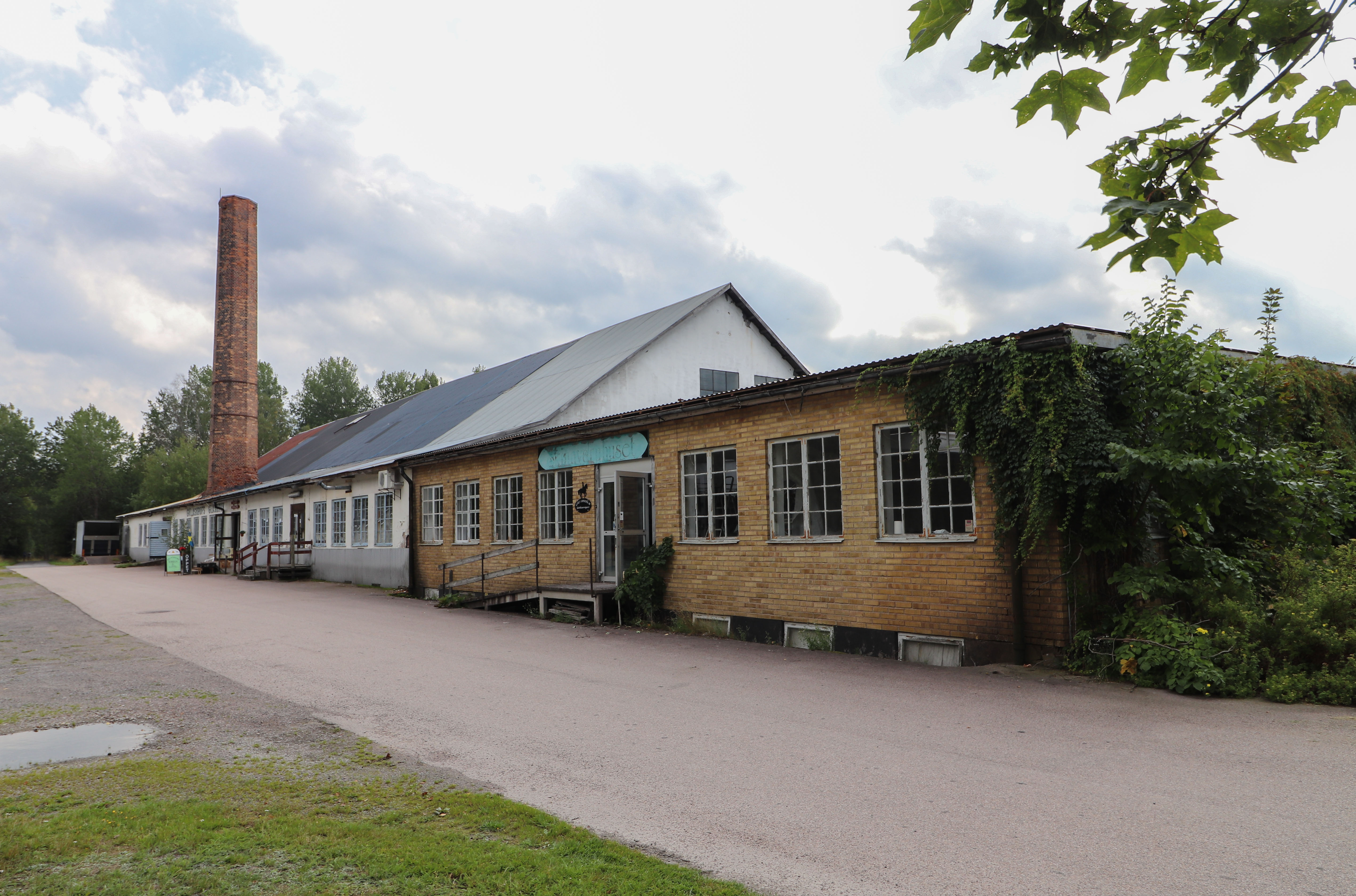 Gullaskruf glassworks